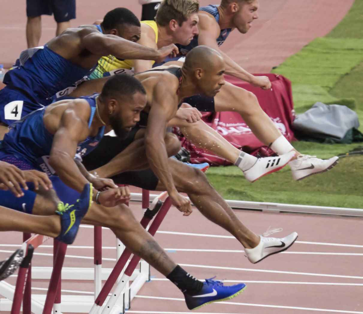 DOH70021 decathlon 110mH warner mayer